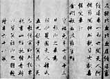 Vajrasekhara Sutra (金剛経, kongōkyō)